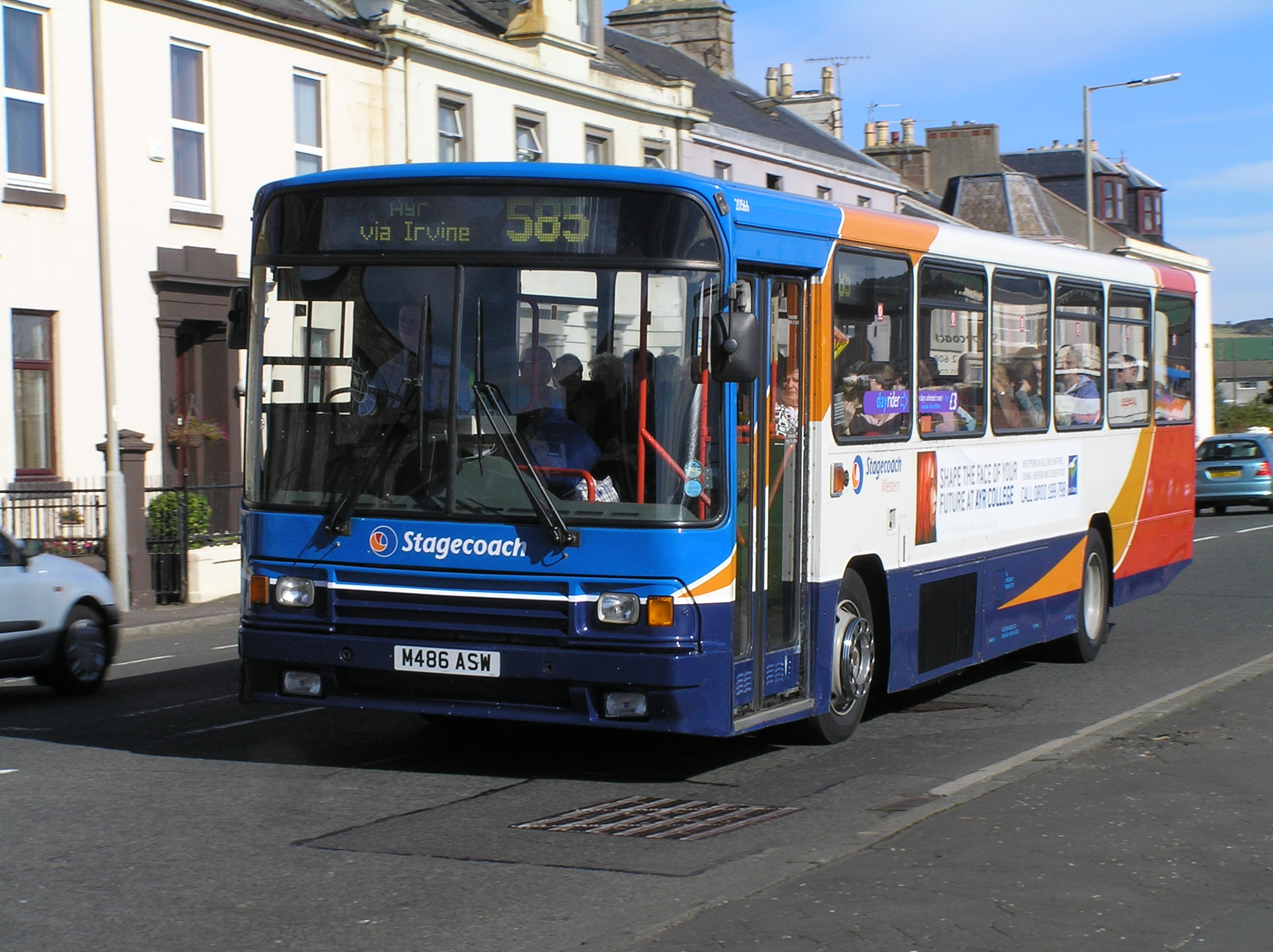 A Stagecoach Western Volvo B10M bus with Alexander PS bodywork in Ardrossan, Ayrshire. Large numbers of these vehicles were purchased by the Stagecoach Group between en:1992 and en:1997. Taken by Ayrshire--77.